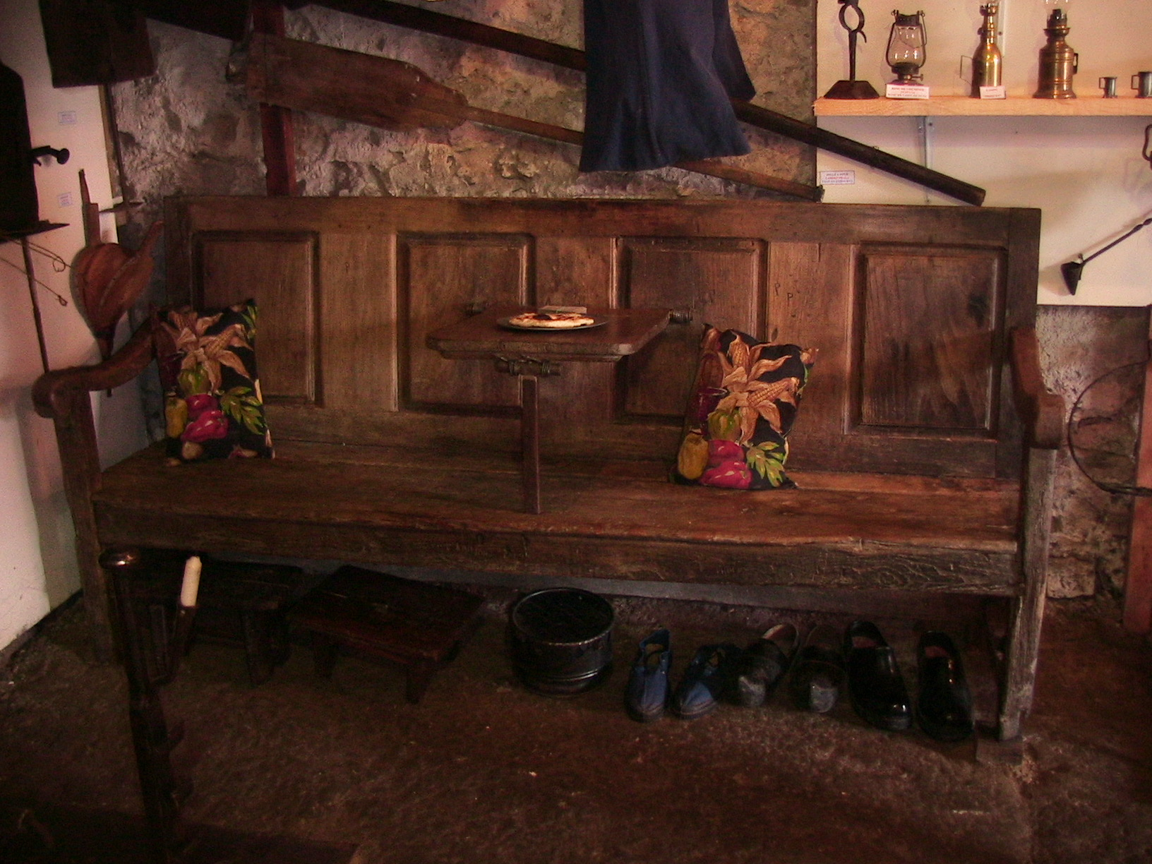 Züzülü in Montory